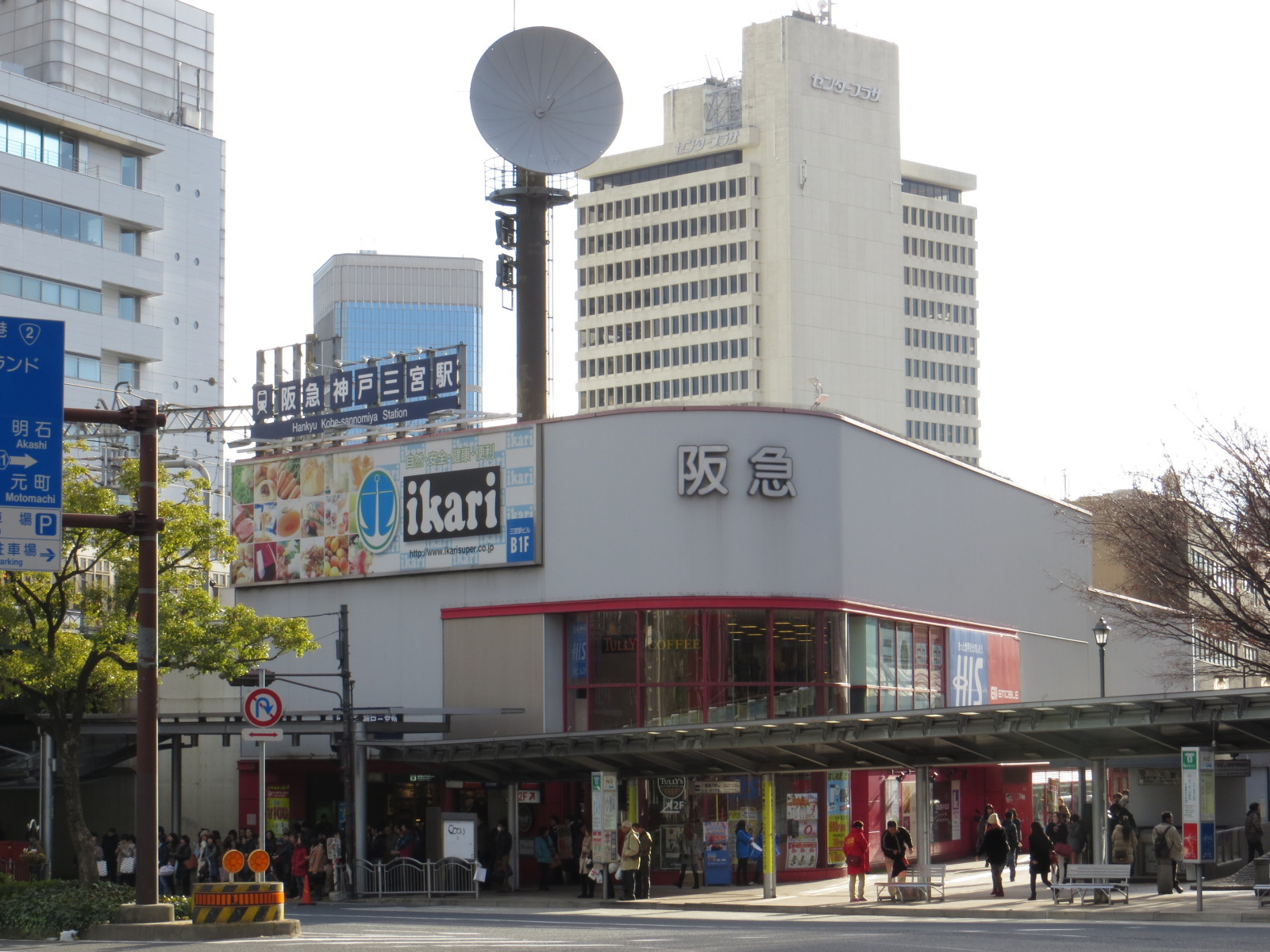 East Gate from Kobe-sannomiya Station (HK16), Hankyū Kōbe Main Line.